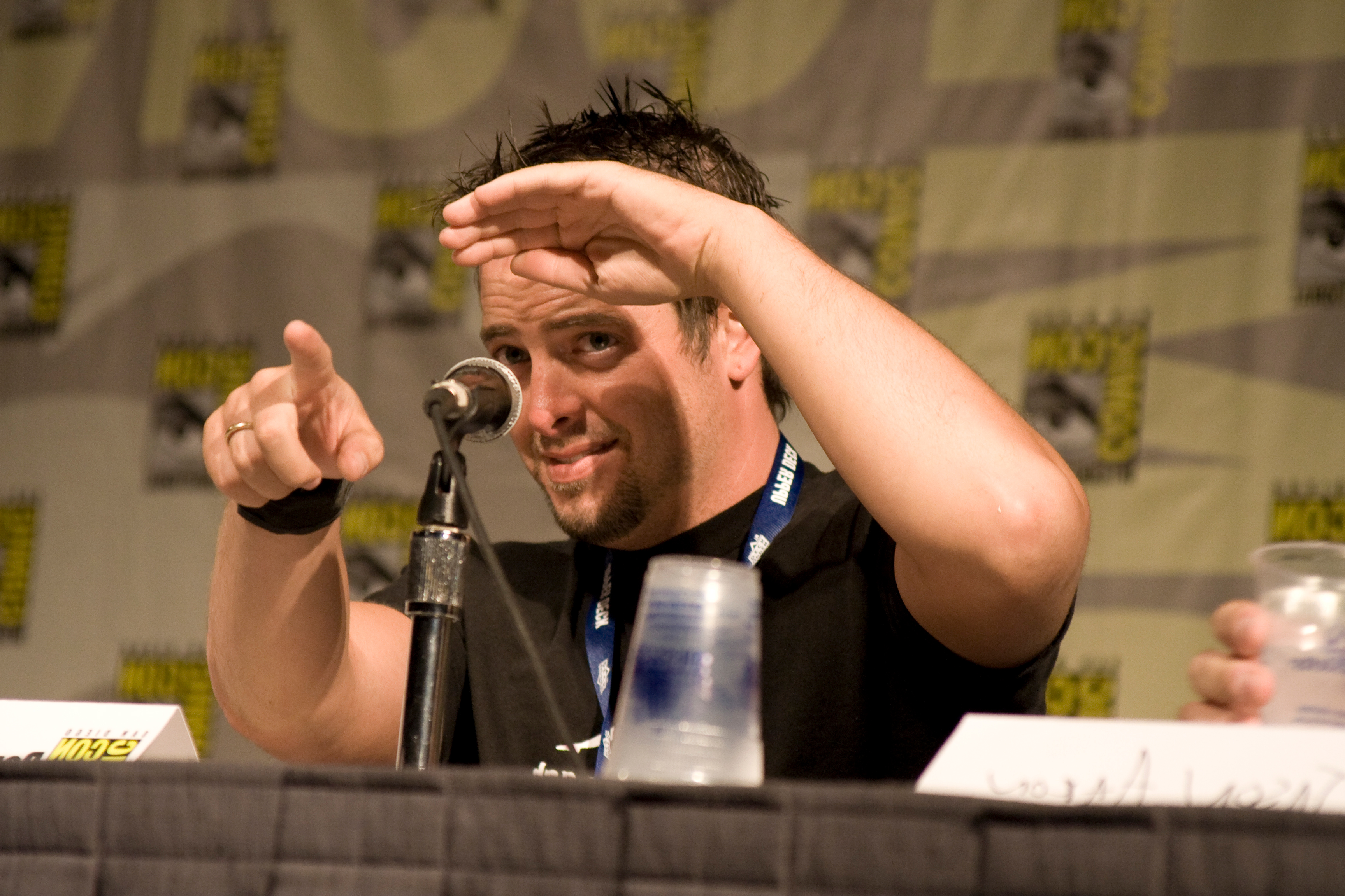 Horizontally flipped version of File:Daniel Way showing comic writer Daniel Way at the 2008 Comic-Con, partially blinded by light and accepting a question. Photo by pinguino k from North Hollywood, USA.